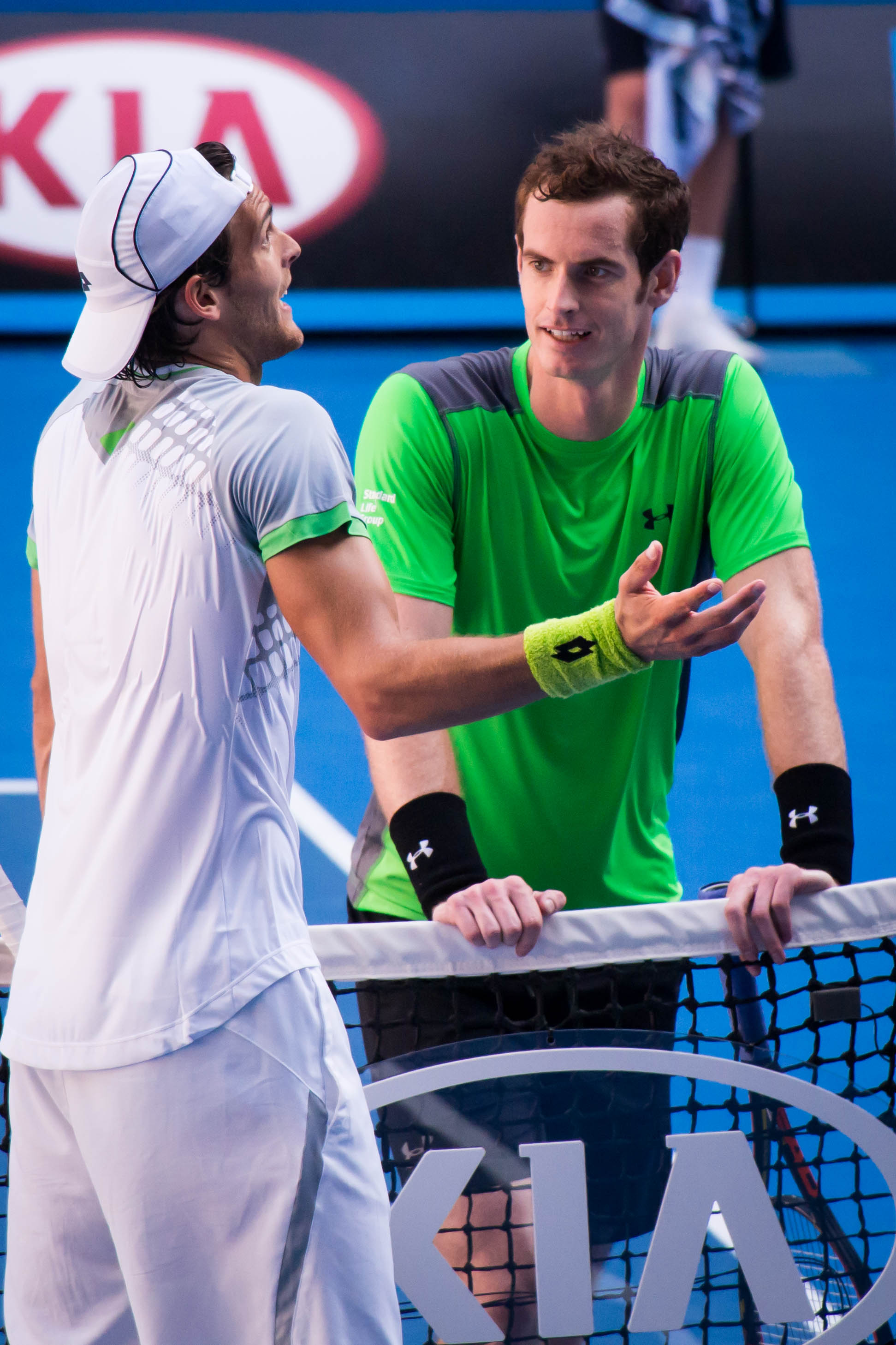 Andy Murray (GBR)[6] after match point in his 3rd round straight-sets win over Joao Sousa (POR) at the 2015 Australian Open in Hisense Arena. Sousa's final shot was narrowly called out and he had run out of challenges, so Andy had to wait to shake hands while Sousa pleaded his case to the umpire.